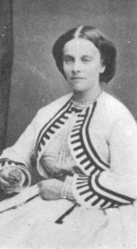 Princess Therese of Saxe-Altenburg (1836–1914)